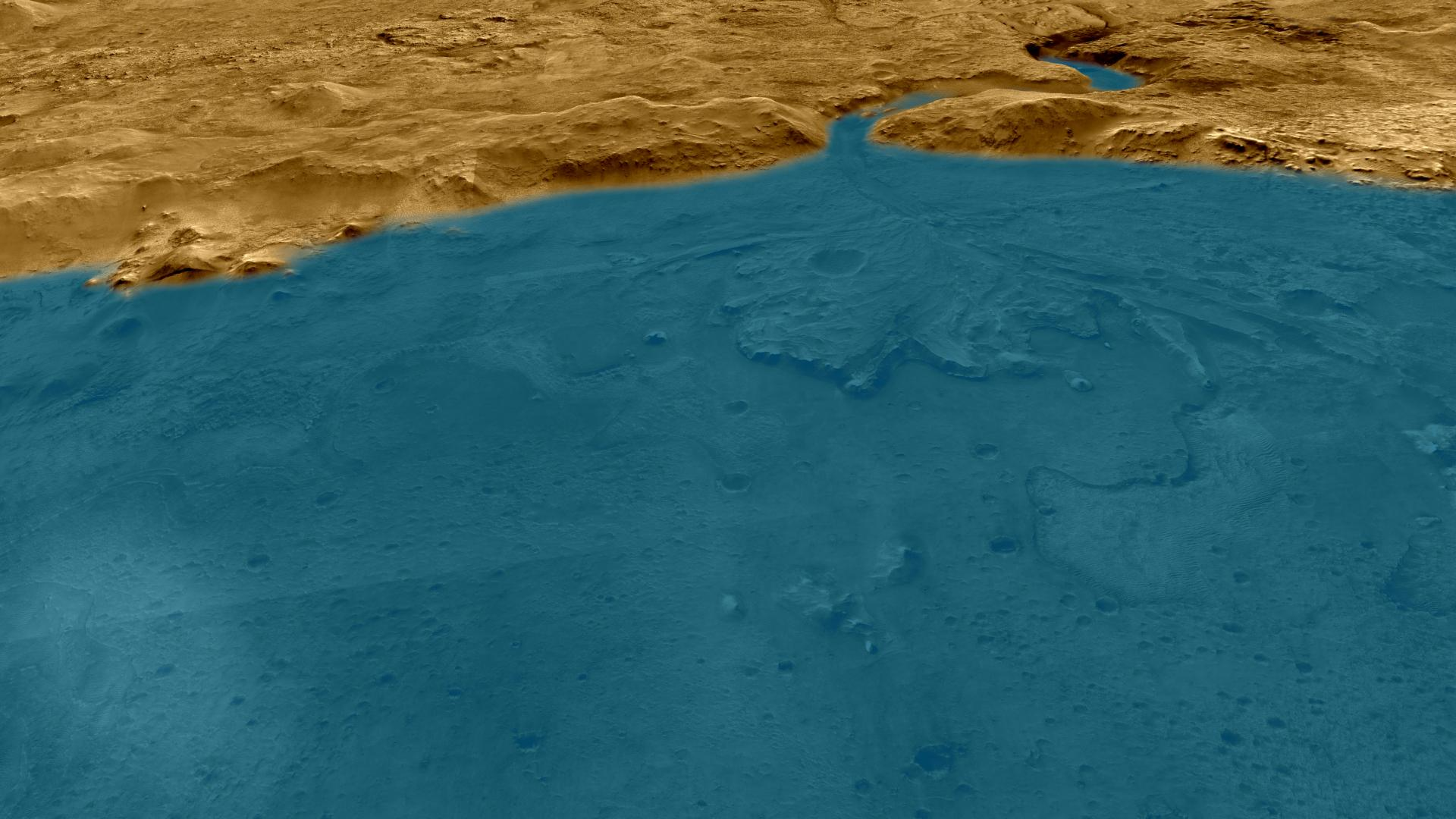 PIA22907: Lake Jezero (Artist's Concept) This artist's concept depicts an aerial view of what the Jezero Crater area of Mars may have looked like billions of years ago. More information about Mars 2020 is online at and